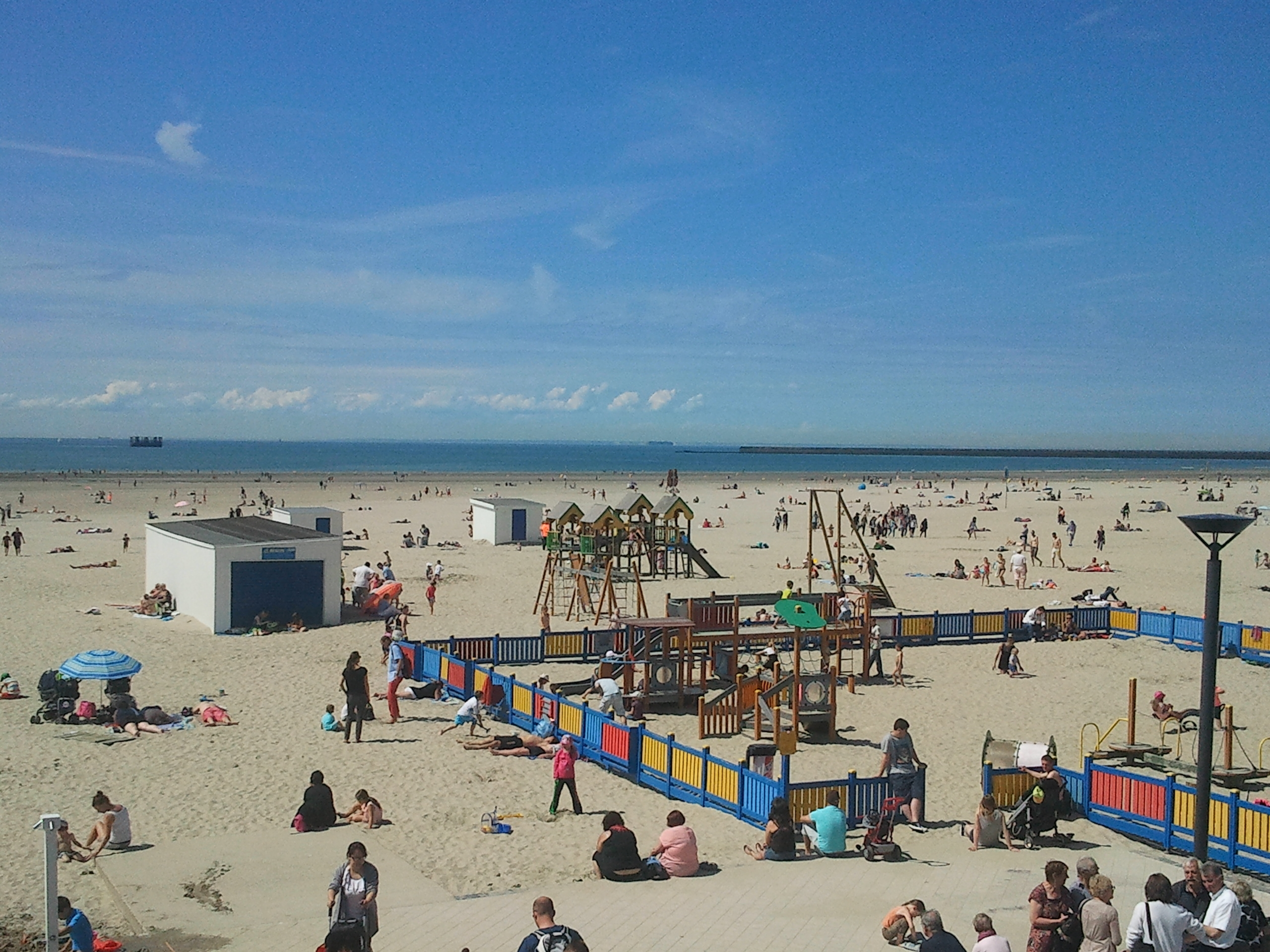 Beach of Boulogne-sur-Mer in Northern France